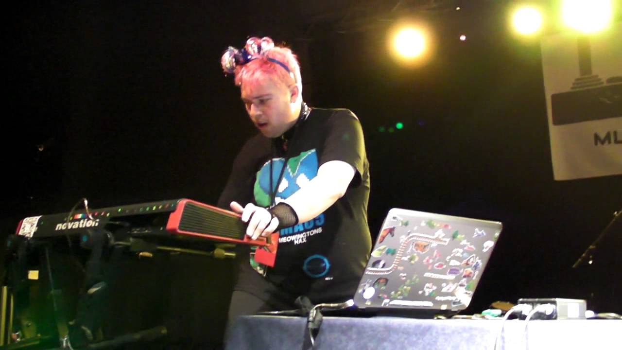 Still image from a video of Jake "virt" Kaufman performing at MAGFest X